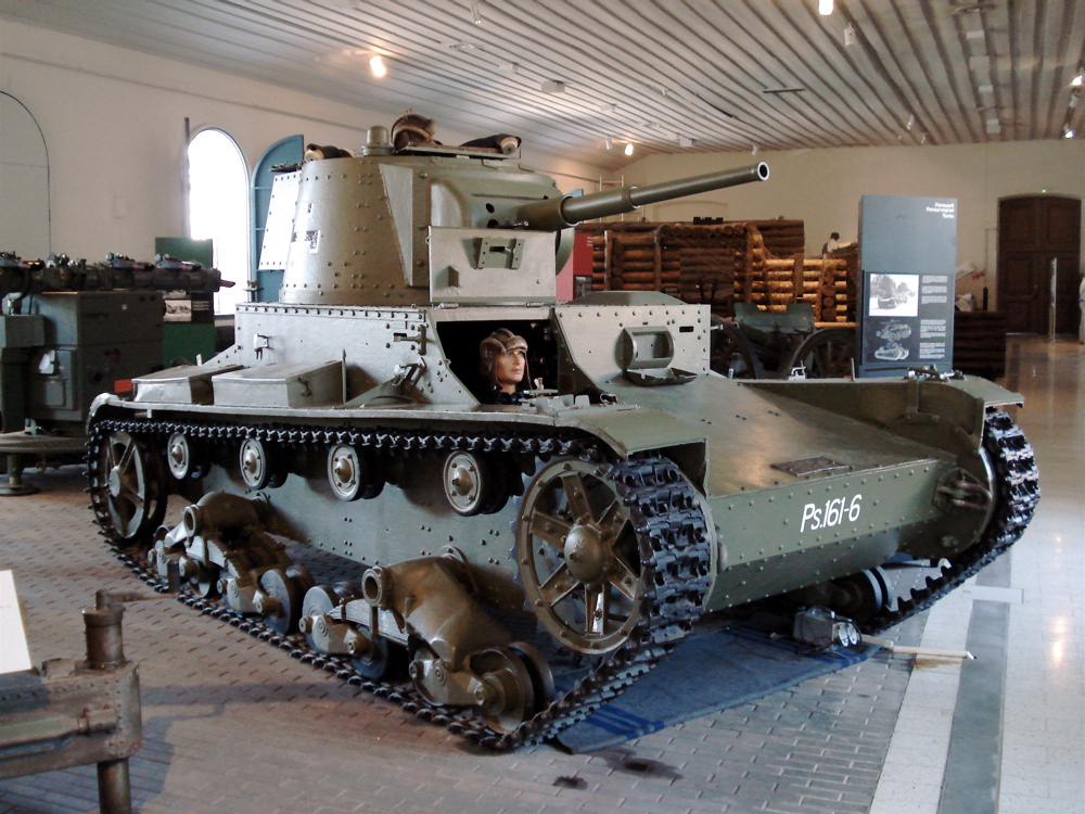 Vickers 6-ton tank (with T-26 turret and 45 mm gun), manufactured in Britain and purchased by Finland, displayed in Manege Military Museum in Suomenlinna fortress, Helsinki. Photo taken on June 10, 2006. Source: Photo by me, User:Balcer.